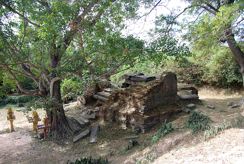 Angkorian Temple of Ak Yum